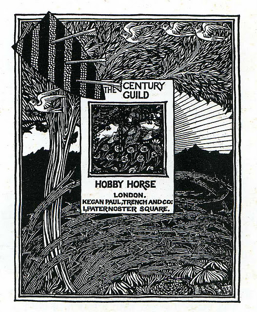 Hobby Horse cover